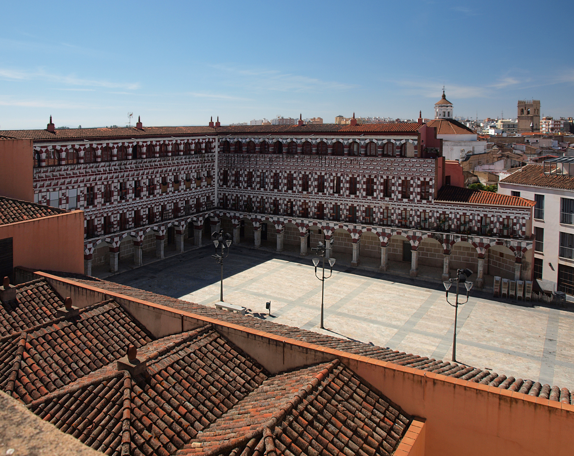 Plaza Alta, Badajoz. The church tops on the background are from the Church of Concepción (left) and the Badajoz Cathedral (right).